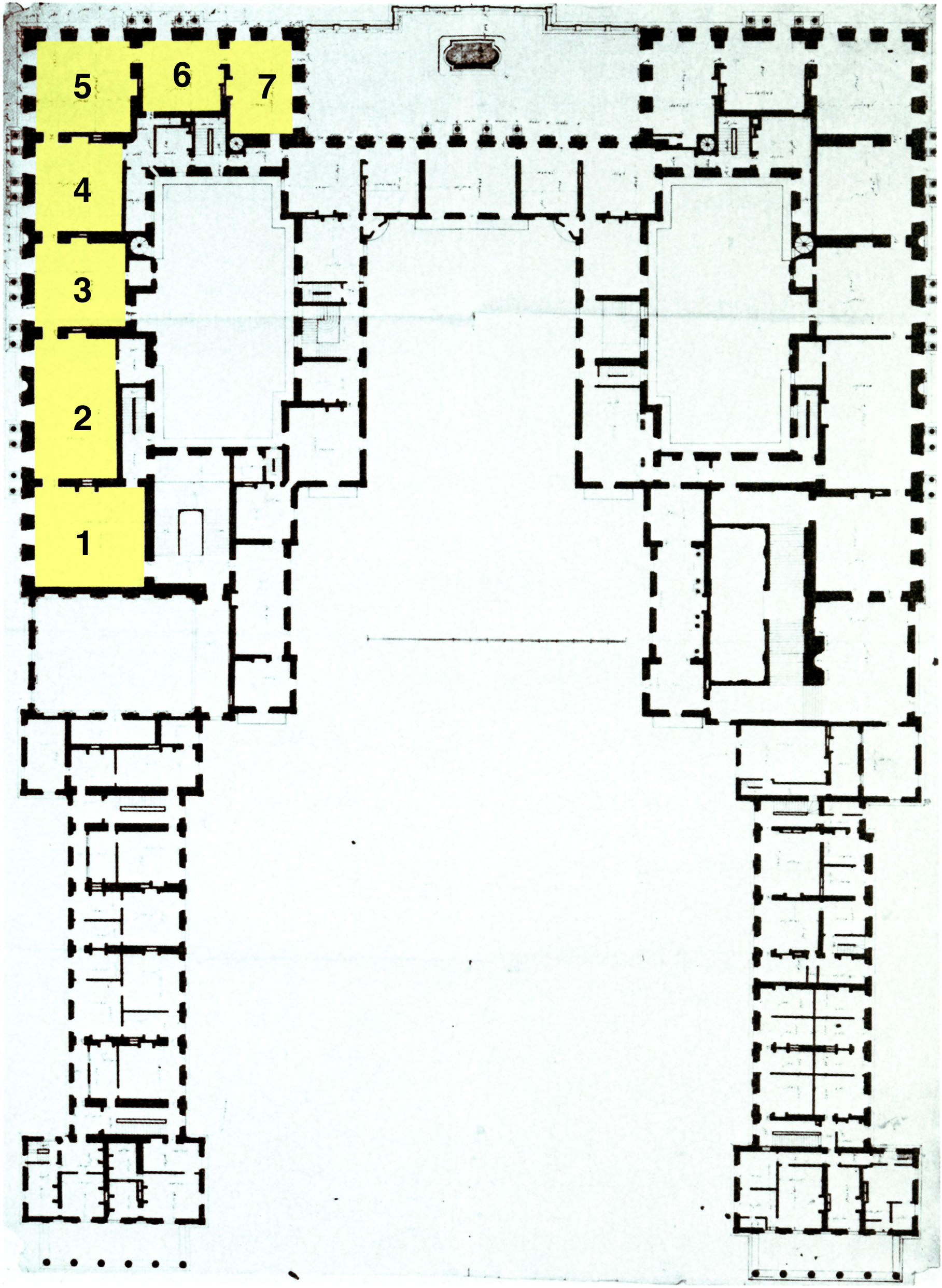 Plan of the main floor (premier étage) of the Palace of Versailles Enveloppe [with the Queen's grand apartment marked in yellow] (110 x 80.5 cm, National Museum, Stockholm, Cronstedt Collection, CC 74)